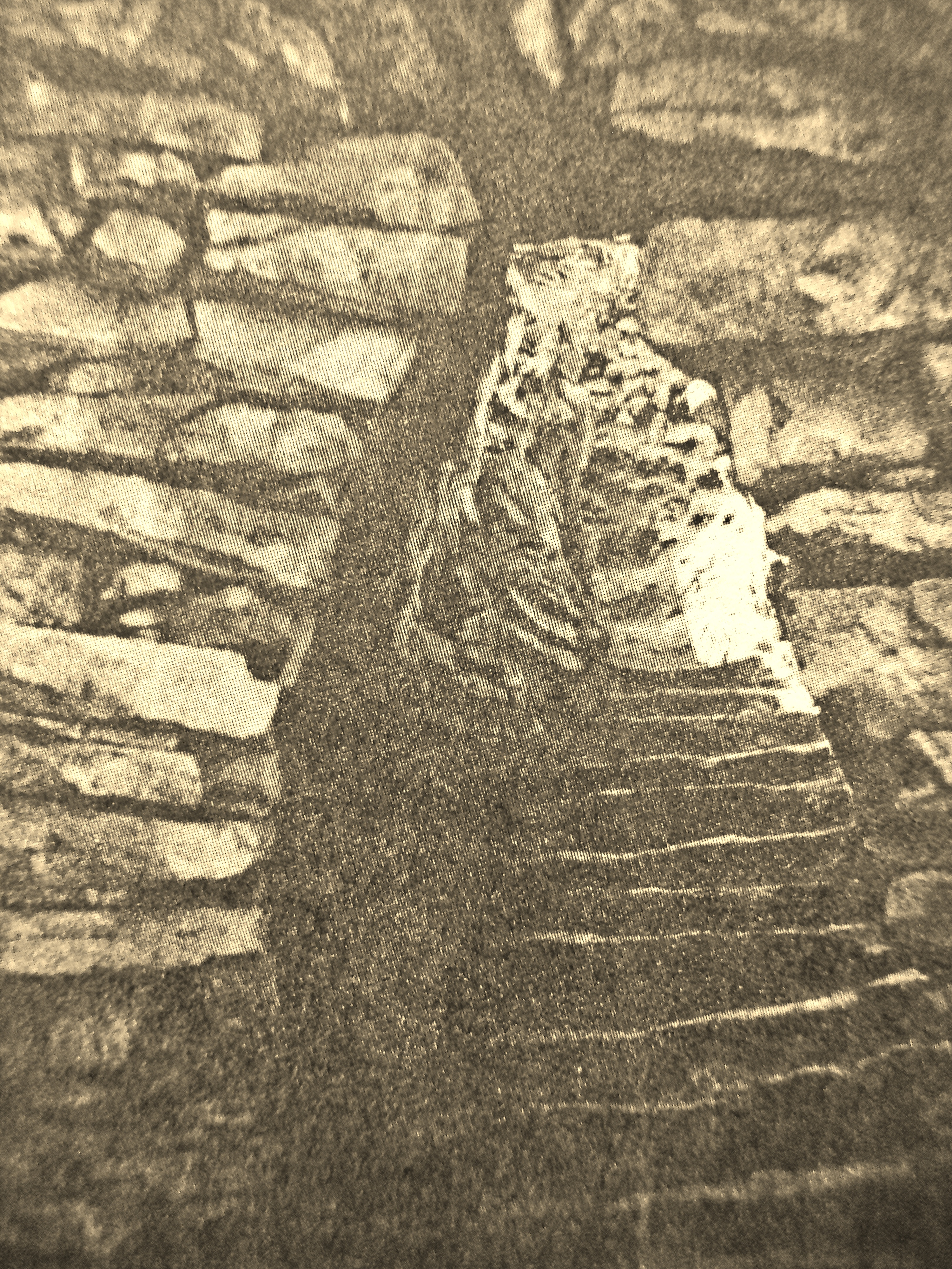 Nuraghe_Bulgaria_Gurlo_1980s2